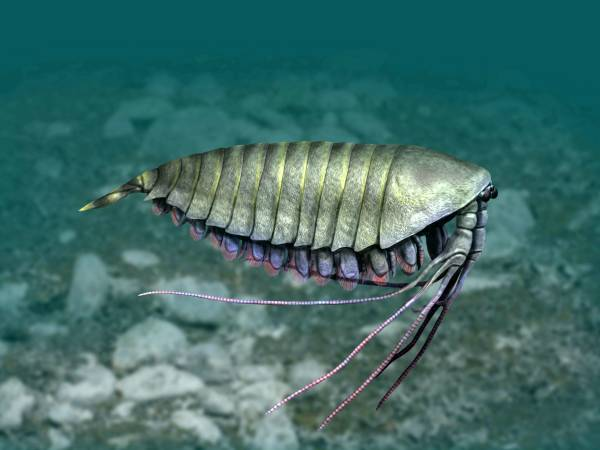 Life reconstruction of Yawunik kootenayi